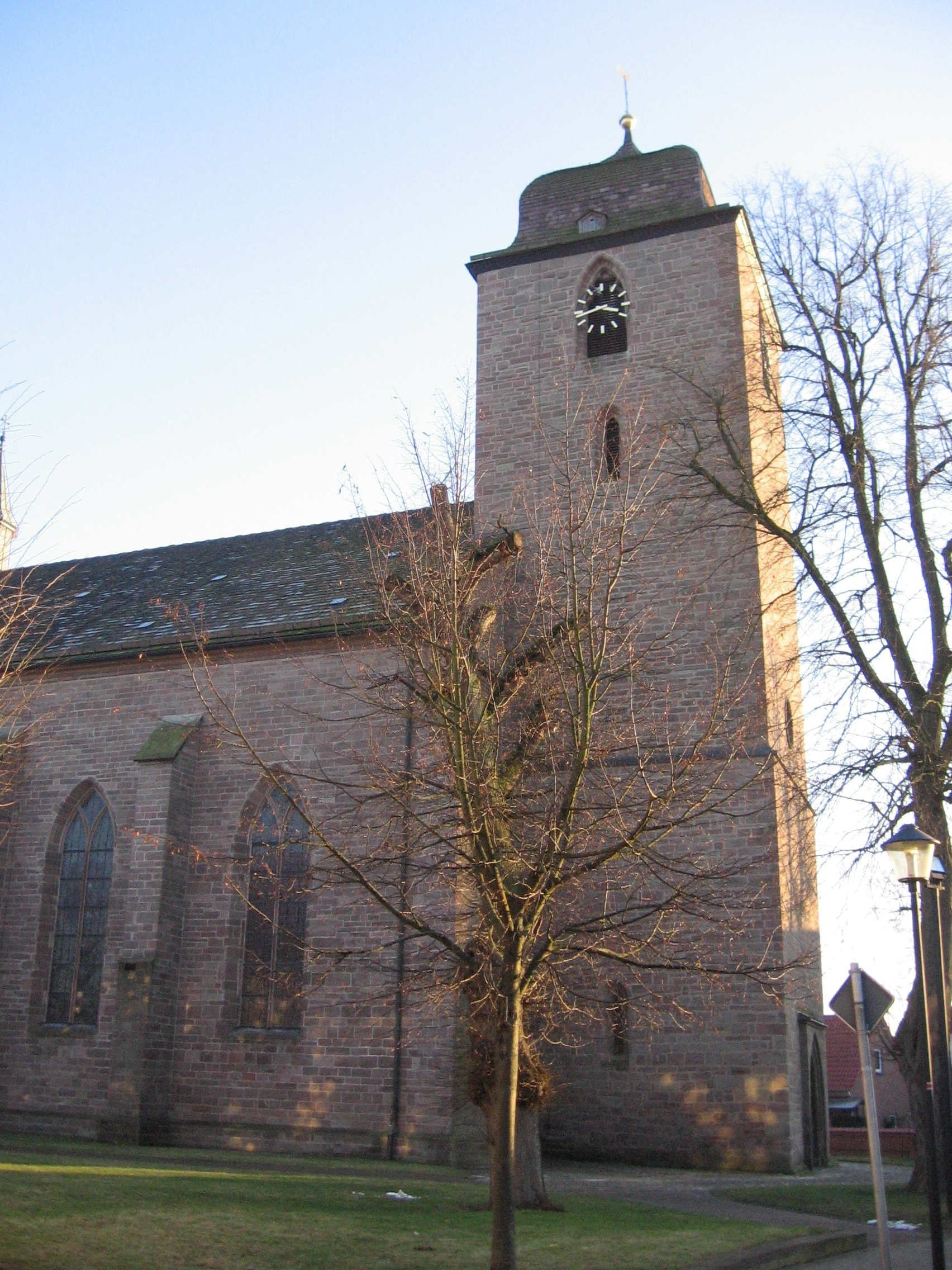 The church of the German city Borgentreich in January 2006.